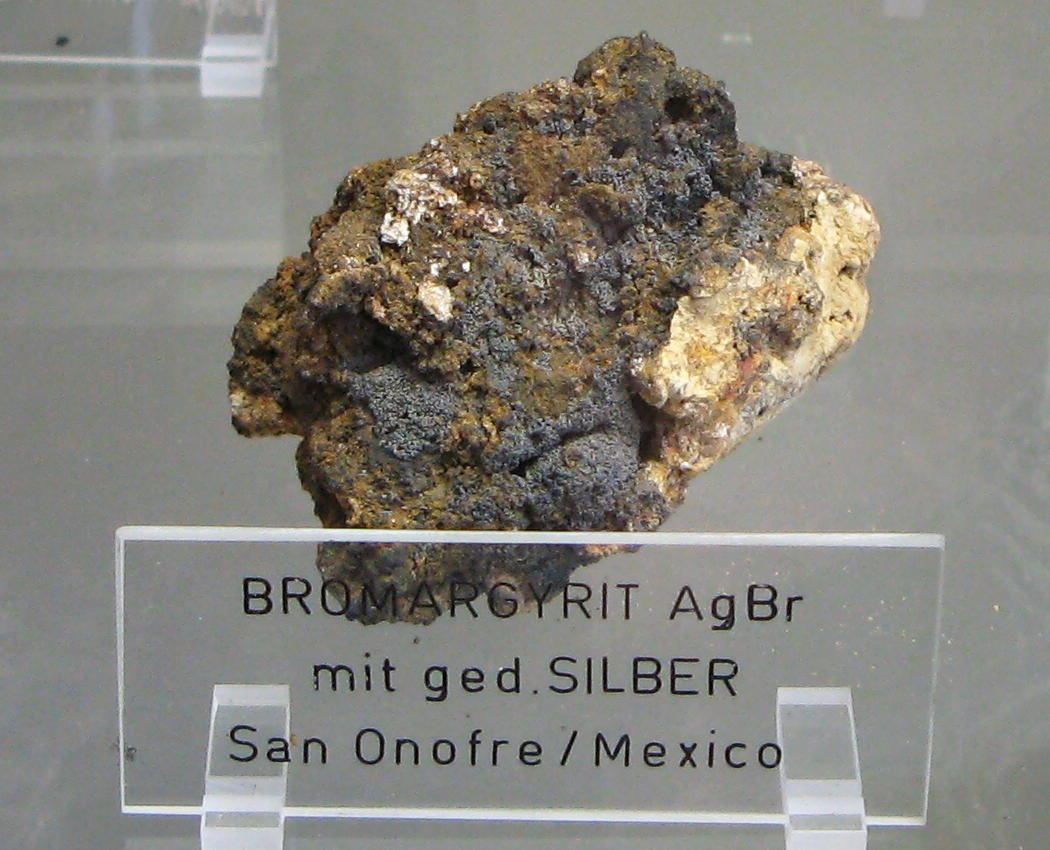 Bromargyrite with native Silver - Locality: San Onofre, Mexiko - Exposed in the Mineralogical Museum, Bonn, Germany